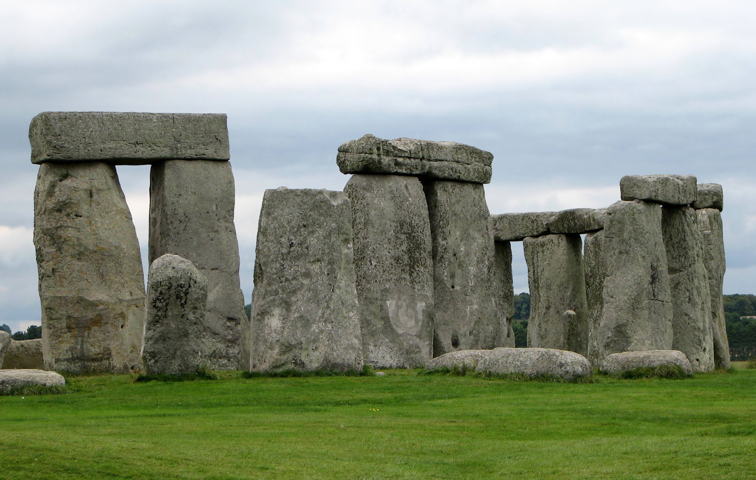 Stonehenge, Wiltshire county, England